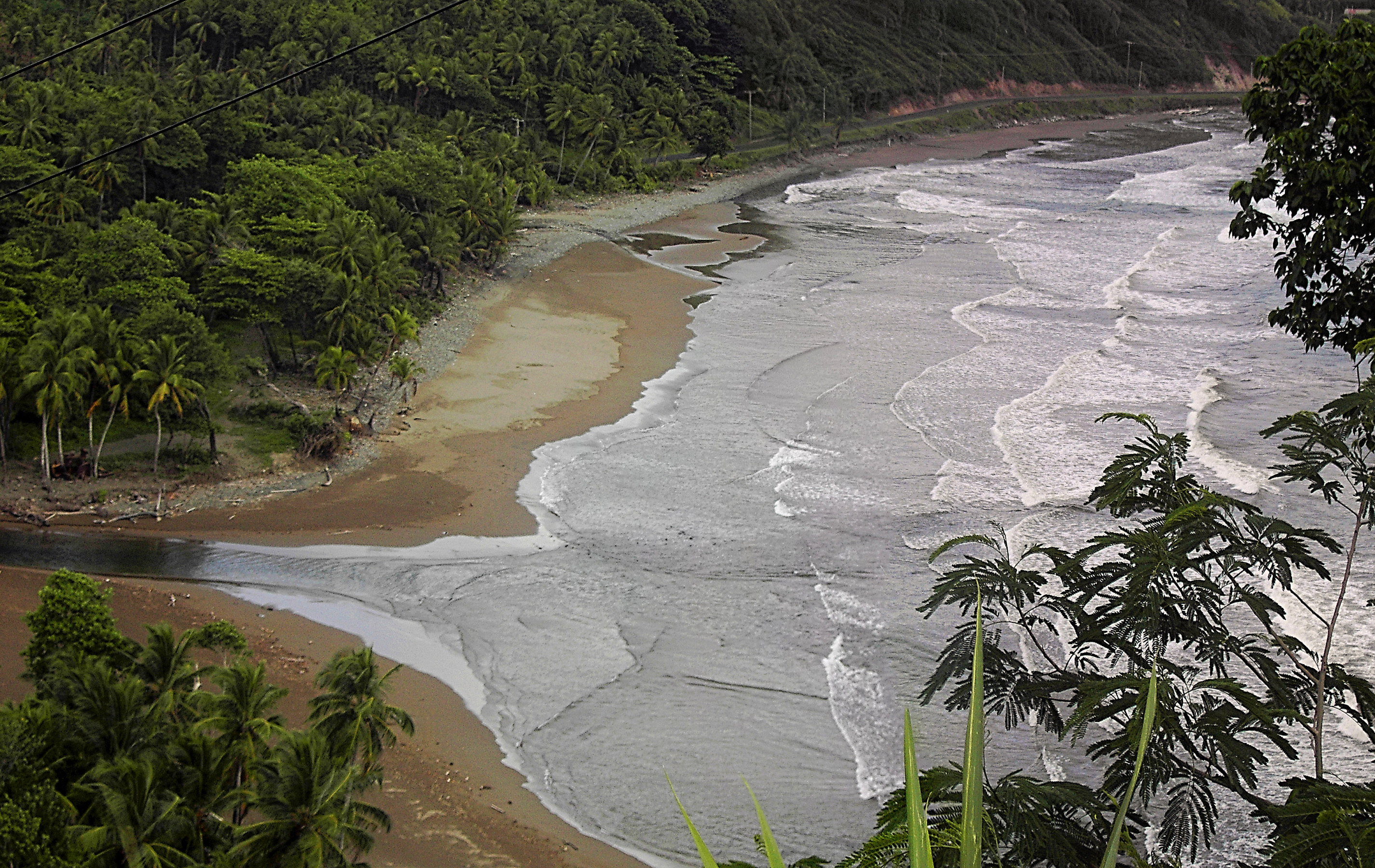 Pagua Bay on the east coast of Dominica, W.I. The Bay is the outlet of the Pagua River into the Atlantic Ocean, as seen above.